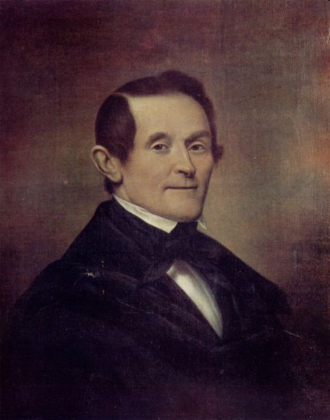 Johann Lebrecht Eggink (nickname from the name written right to left von Knigge) (1787-1867) - historical painter and portraitist. Academician of the Imperial Academy of Fine Arts in St. Petersburg.